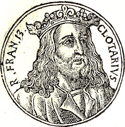 Chlothar III was the eldest son of Clovis II, king of Neustria and Burgundy, and his queen Balthild.